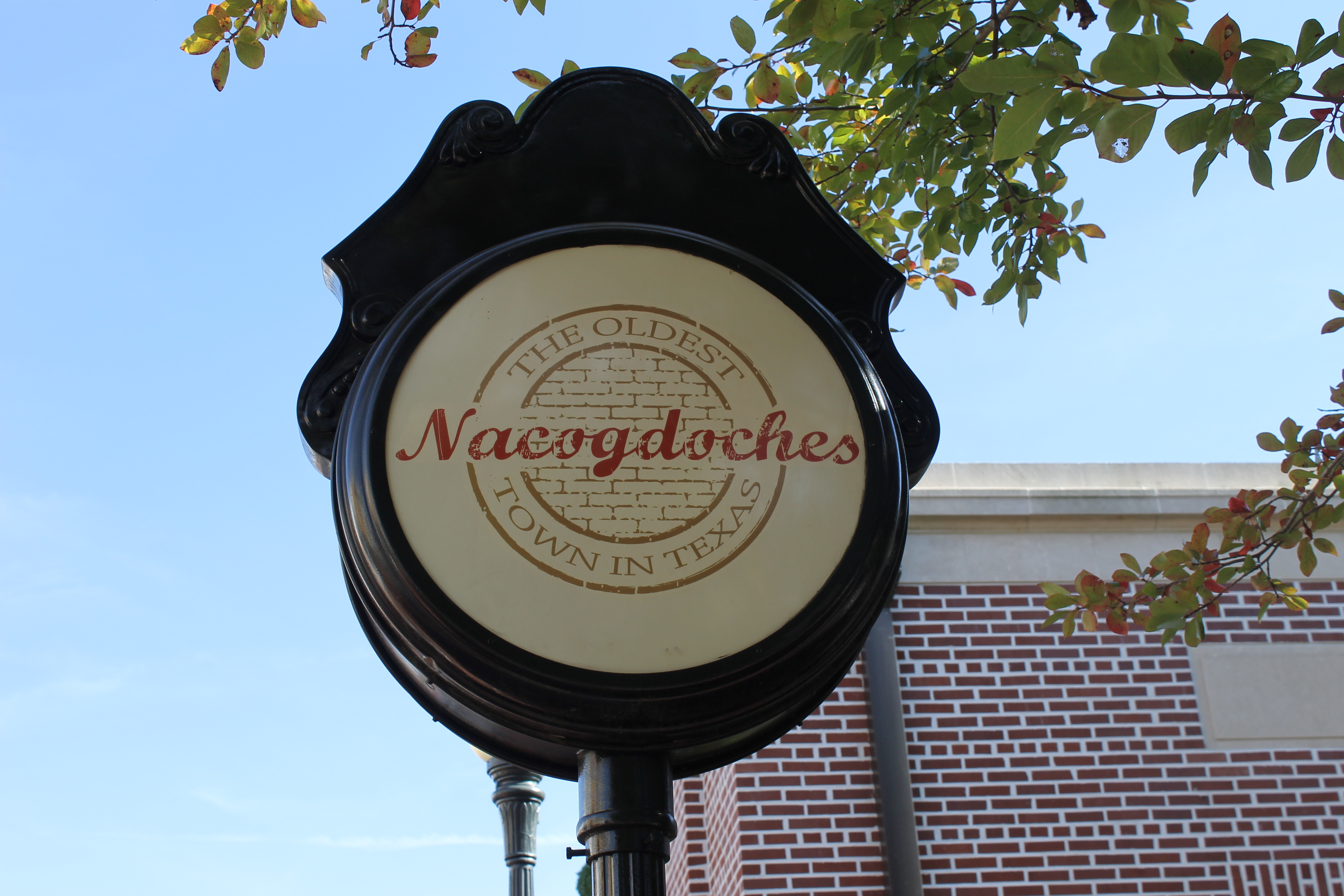 Nacogdoches, TX, clock